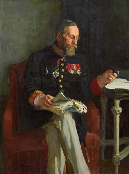 Zinovyev, Aleksandr Dimitriyevich